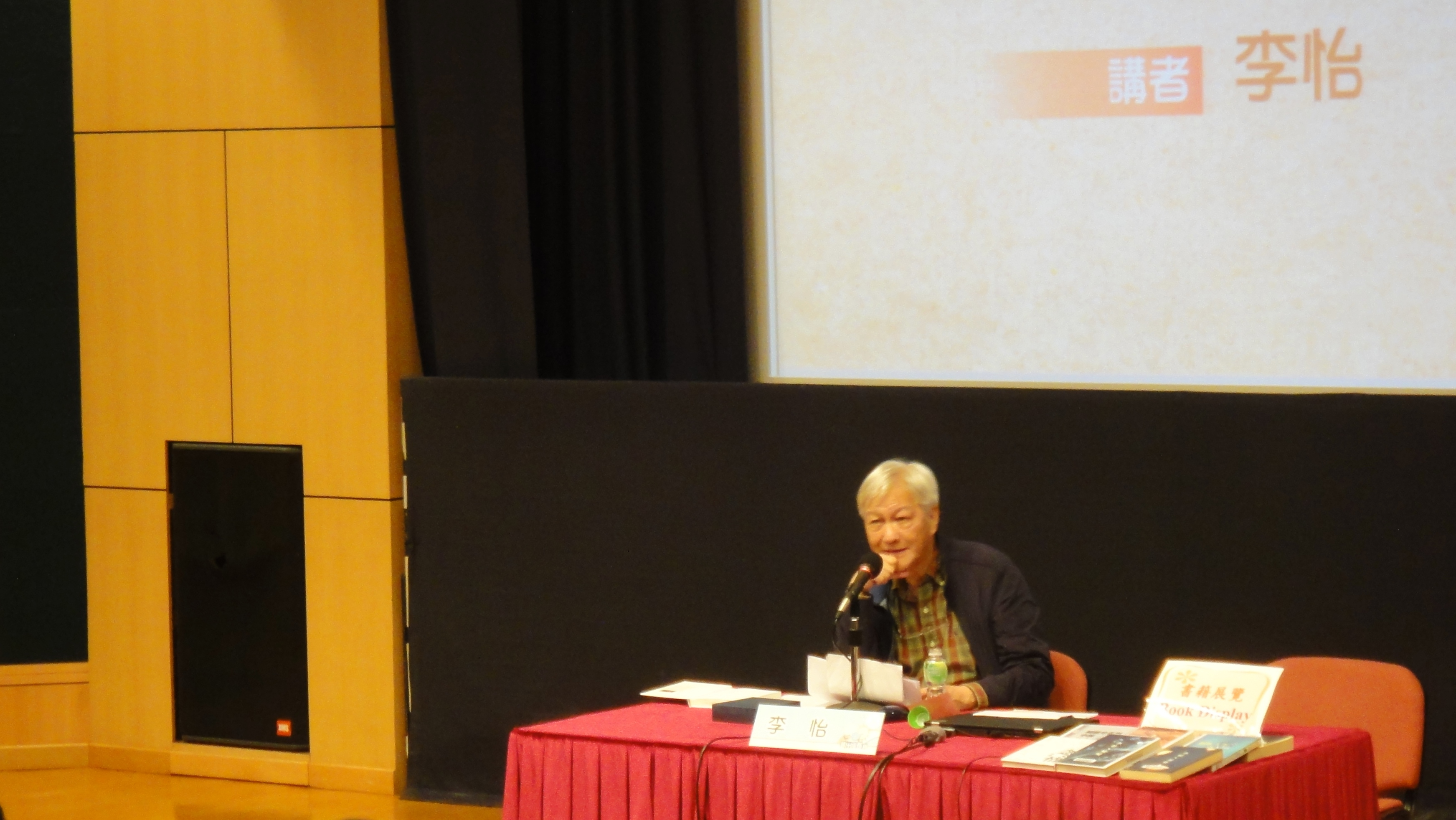 As speaker of the seminar held by the HK Public Library，World Reading Day 2013